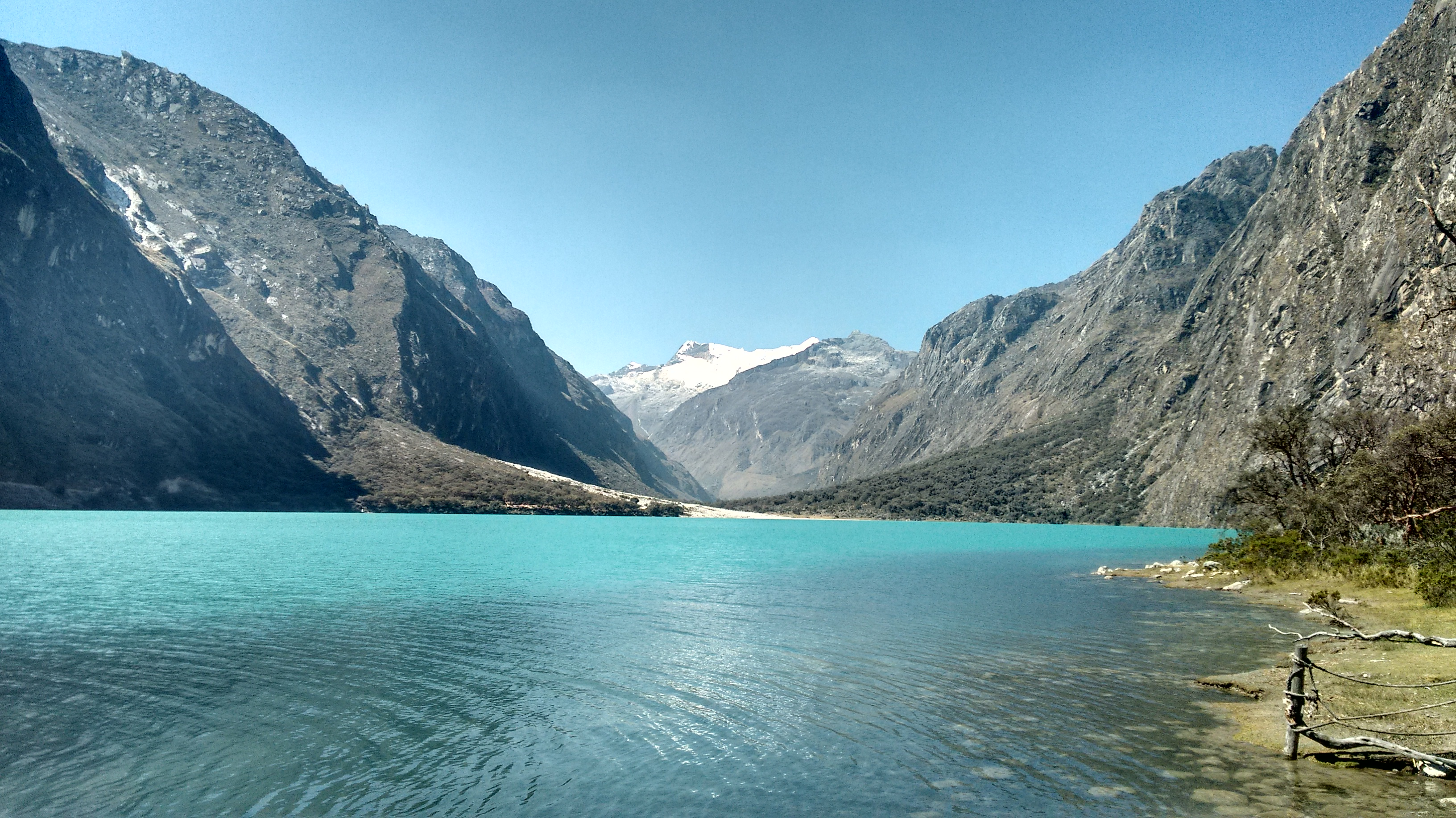 Llanganuco´s Lake